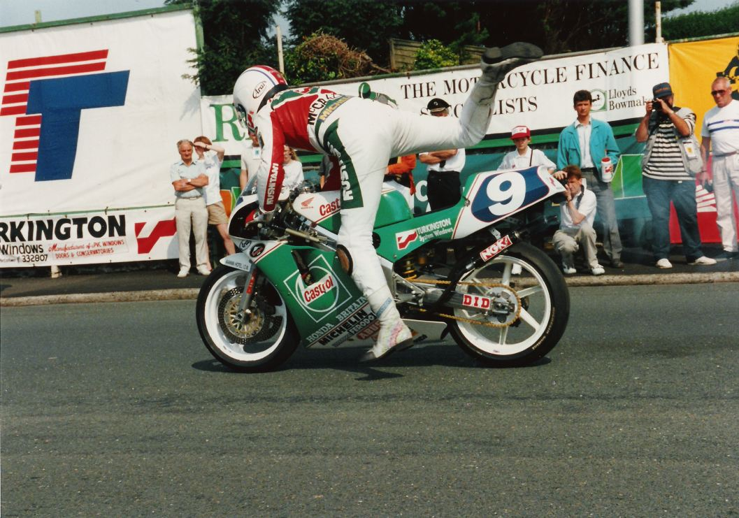 Philipp Mc Callen